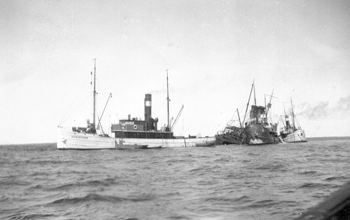 Salvage ship Assistans with Sampo when the icebreaker was grounded and partially sank in 1940.